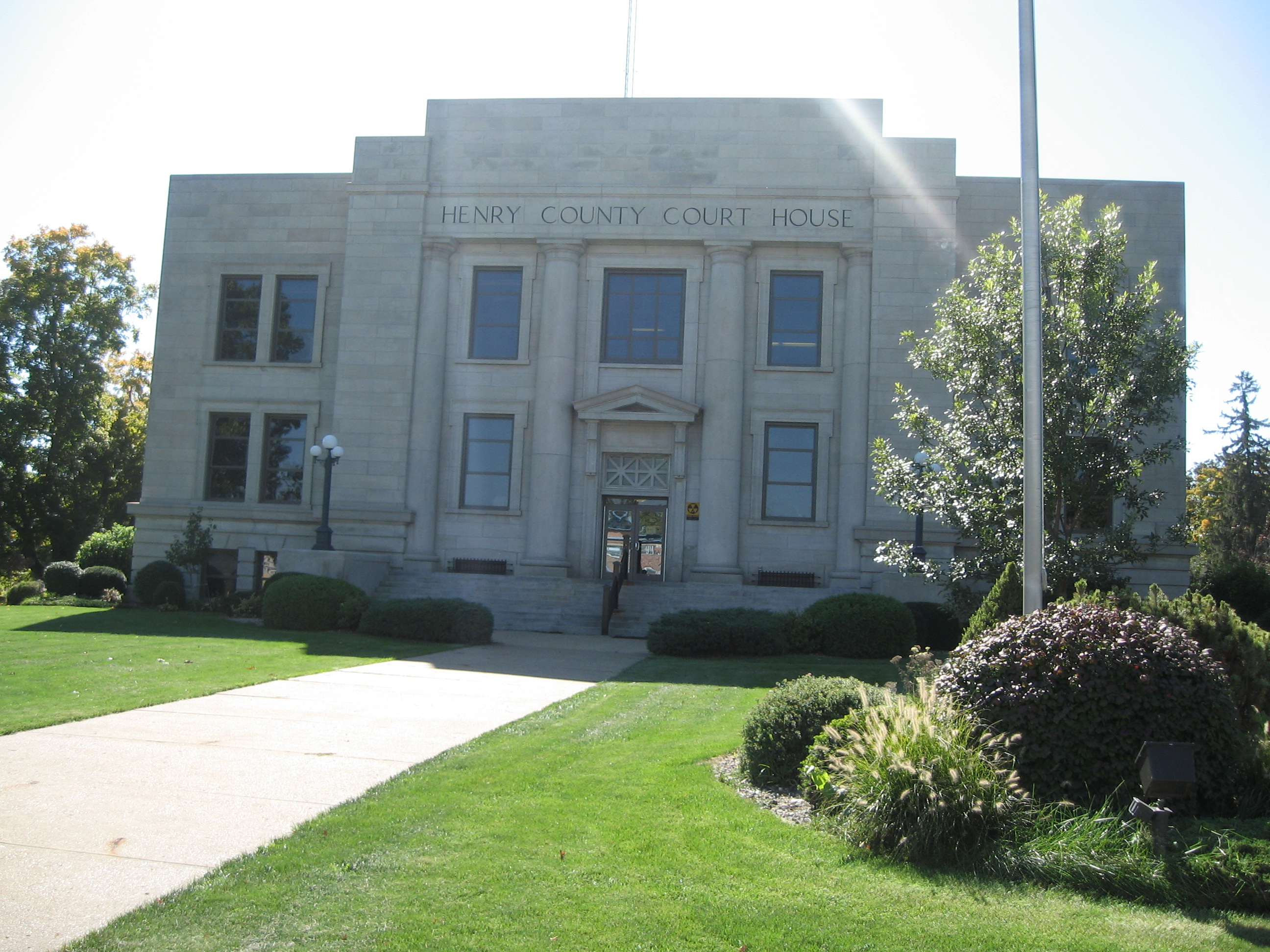 Henry County Courthouse, Mt. Pleasant Iowa. Billwhittaker (talk) 22:04, 7 January 2009 (UTC)